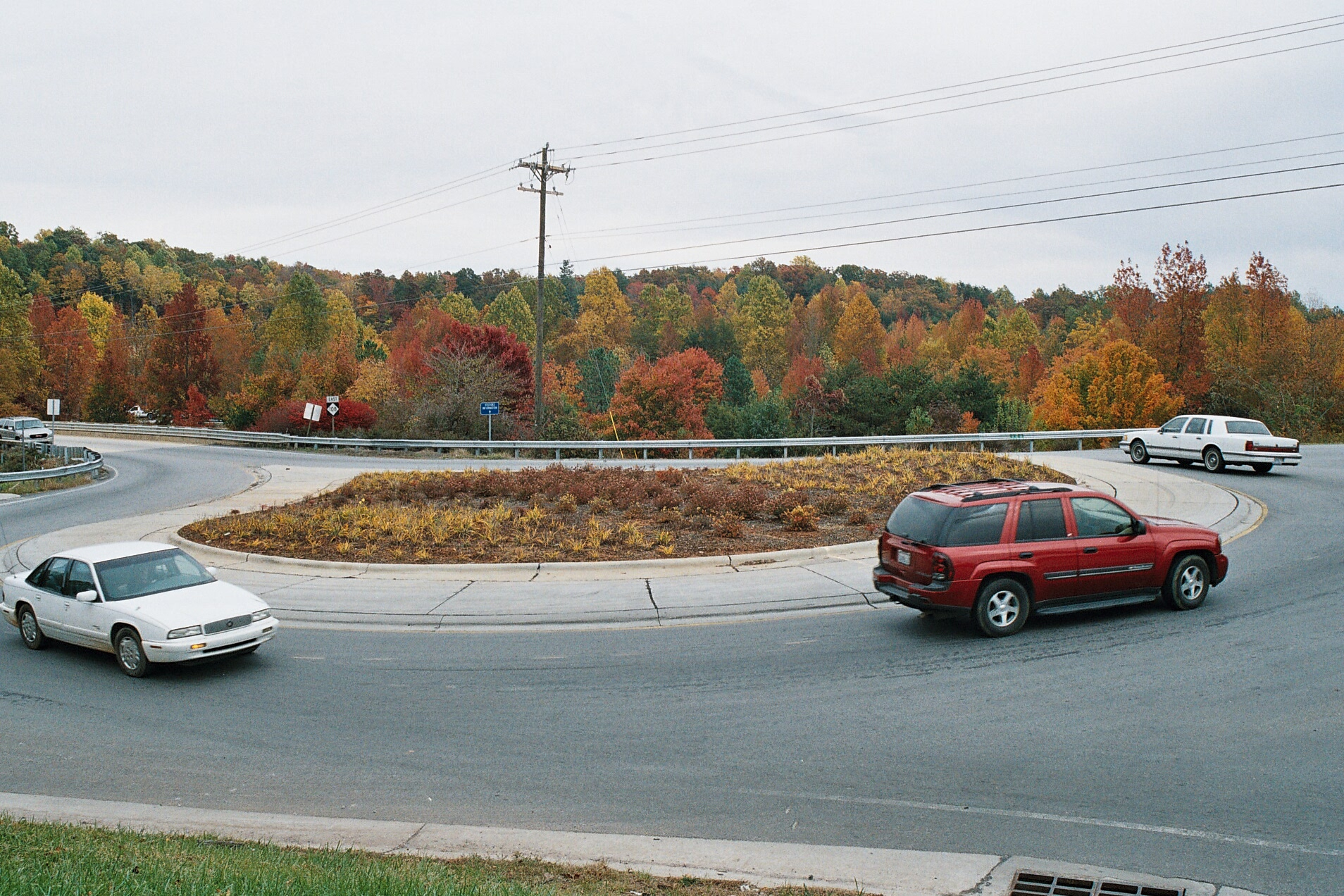 A "raindrop" roundabout on N.C. 108 at the Exit 67 interchange of I-26 in Columbus, Polk County, North Carolina. This roundabout was constructed from 2003-2004 to replace a traffic signal and accommodate the large number of left turns onto I-26 east.